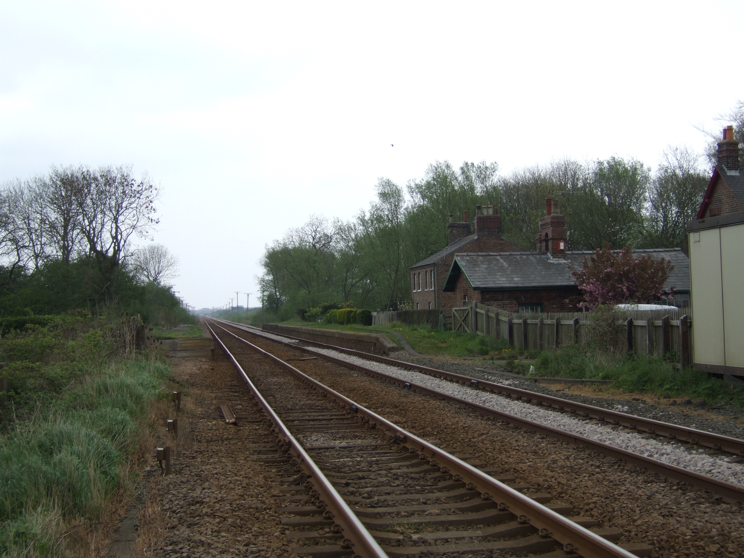 Carnaby railway station, Carnaby, East Riding of Yorkshire, England.. 24.04.2007, by John Thurston